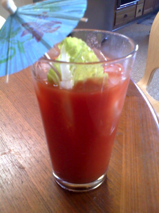 Byron does a much better job of selling it via